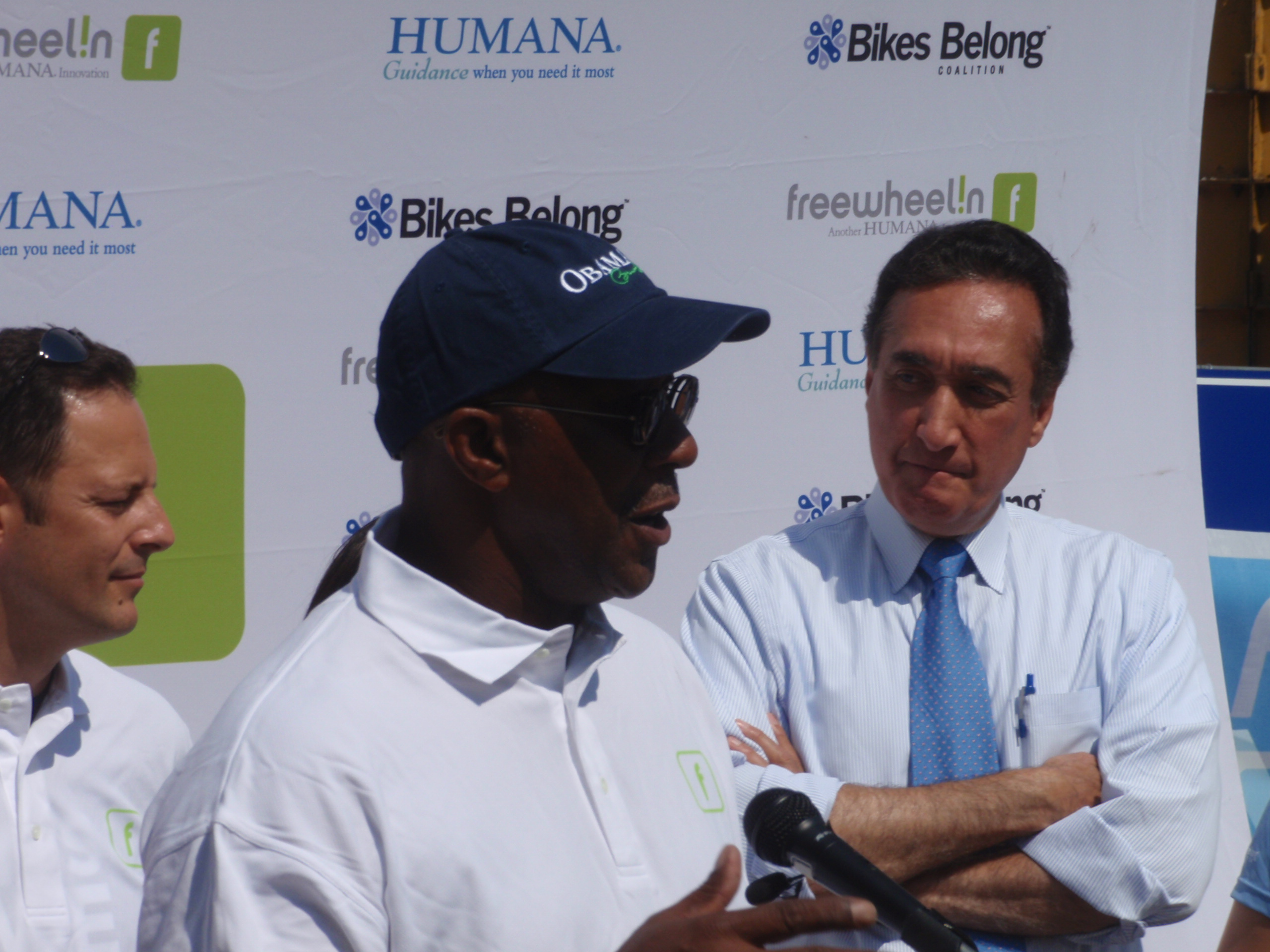 Former Mayor Ron Kirk of Dallas